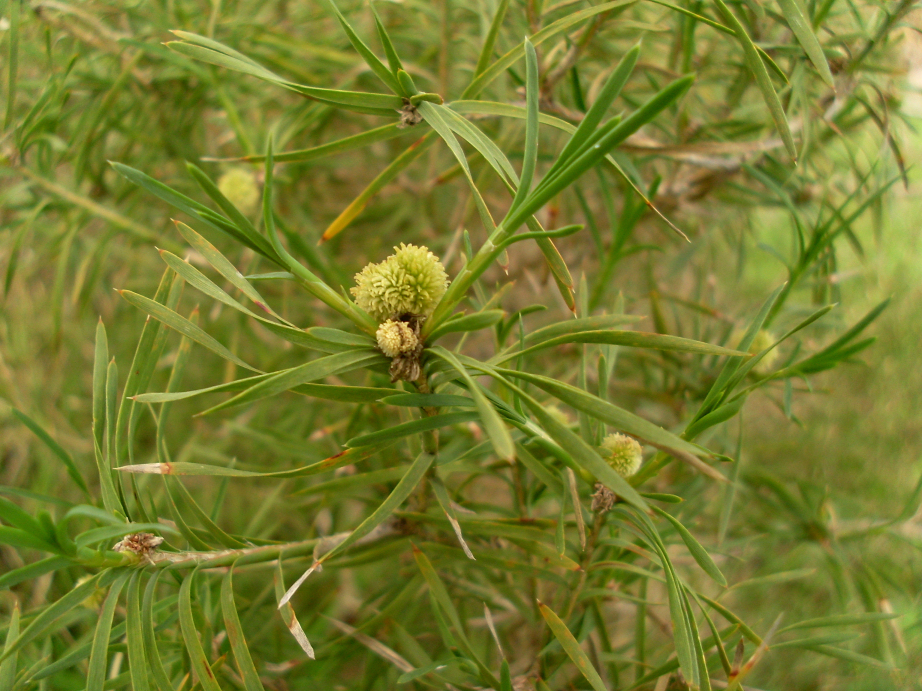 Acanthocarpus preissii (Prickle Lily)